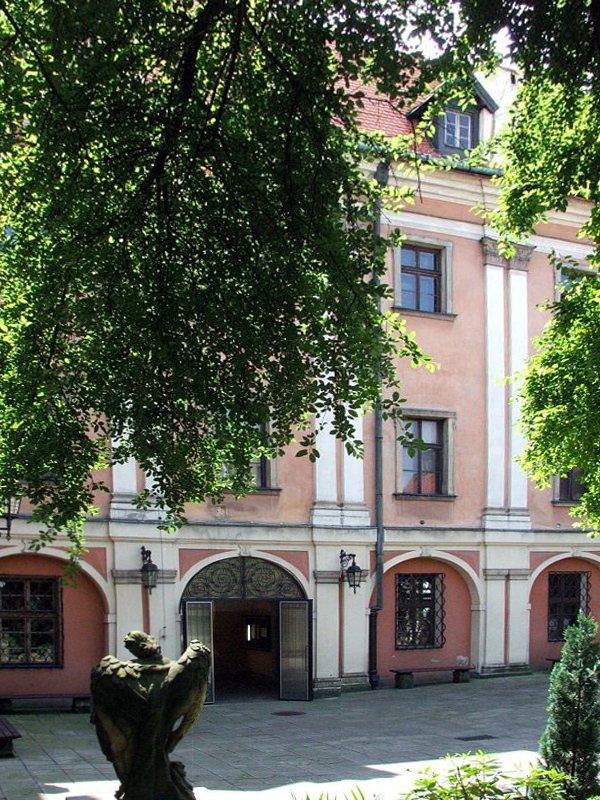 Museum of Kłodzko Land in Kłodzko (Poland) – a courtyard